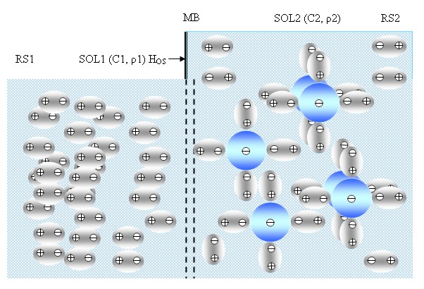 Molecular power 35. Ionic-molecular model of osmosis